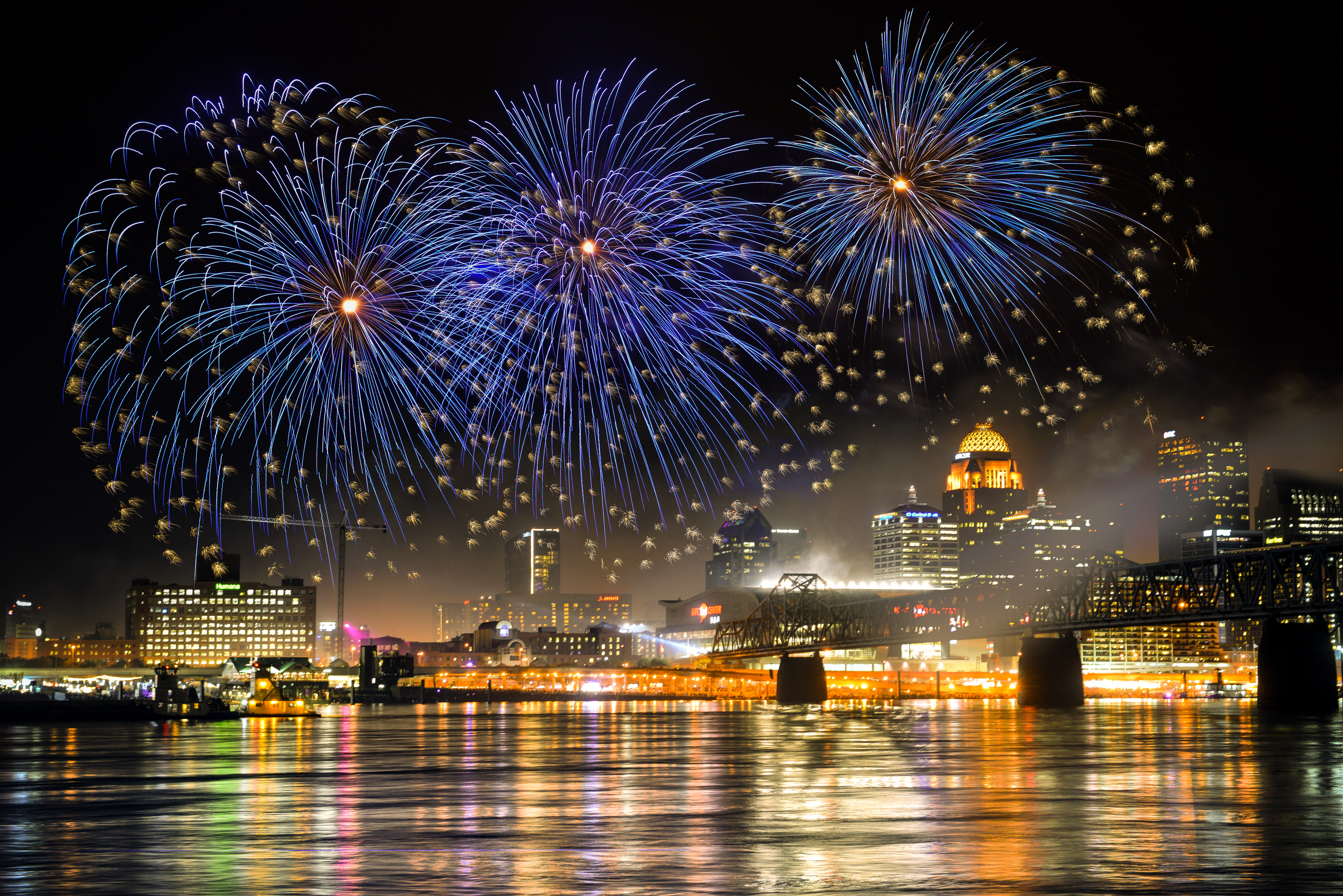 2018 show from the upstream side of the bridge on the Indiana shore of the Ohio River by ART work by photographer Aroun Kesavaraj